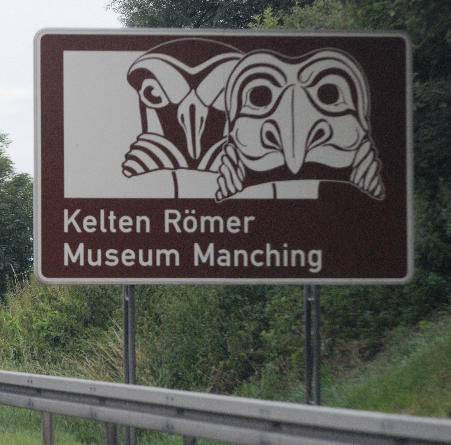 Road sign for the Museum of Kelts and Romans in Manching. Road shot from A 9.